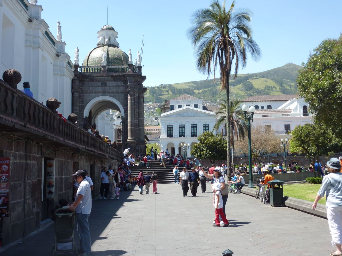 Quito Cathedral in Plaza de la Independencia